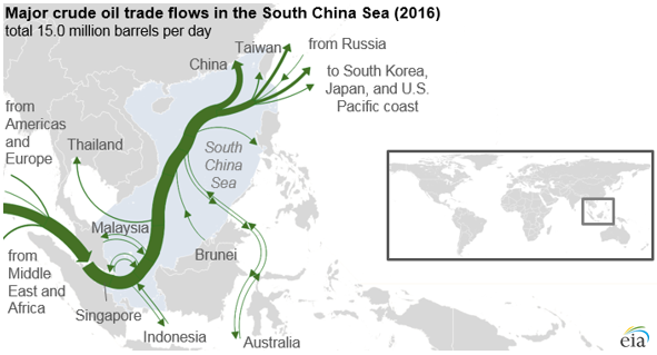 The South China Sea is a major trade route for crude oil, and in 2016, more than 30% of global maritime crude oil trade, or about 15 million barrels per day (b/d), passed through the South China Sea. August 27, 2018